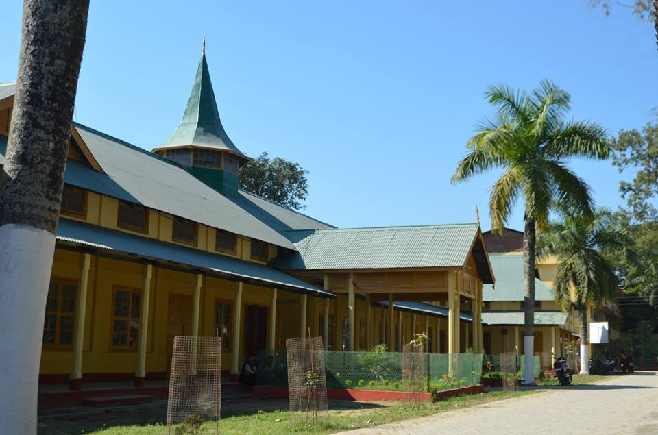 College Arts Block